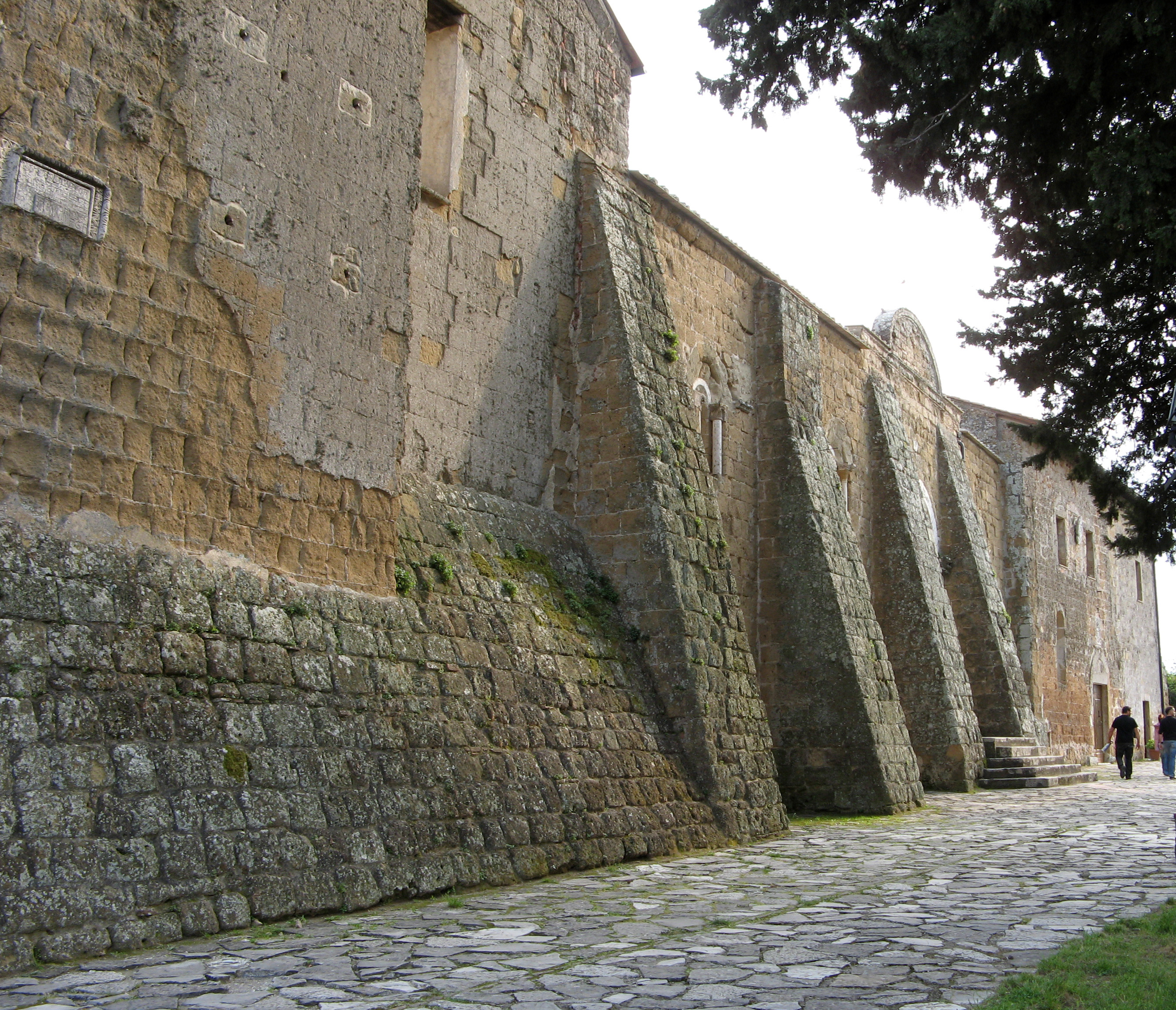 lateral view of duomo of Sovana (Grossseto)